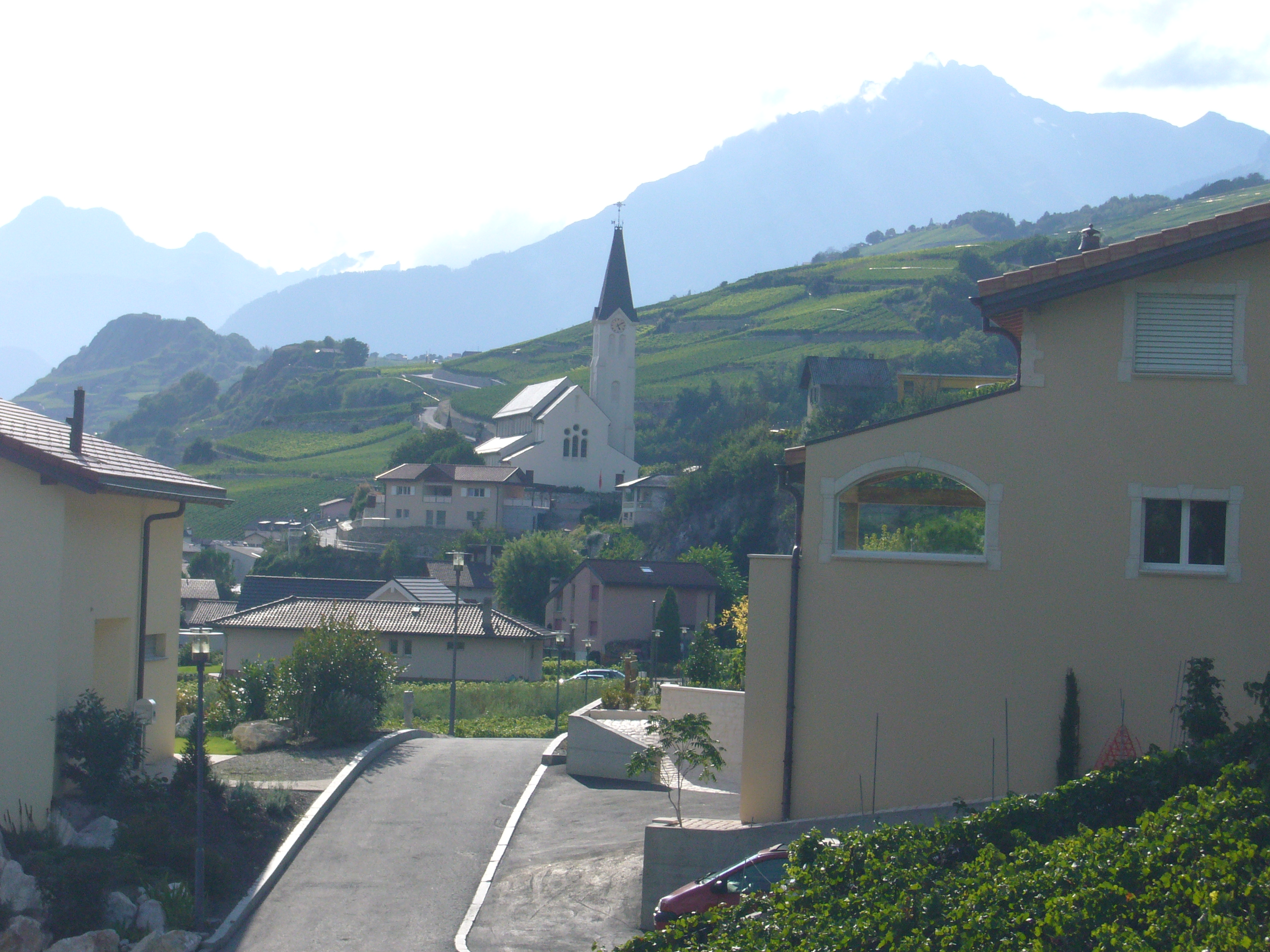 Saint-Léonard, Canton of Valais